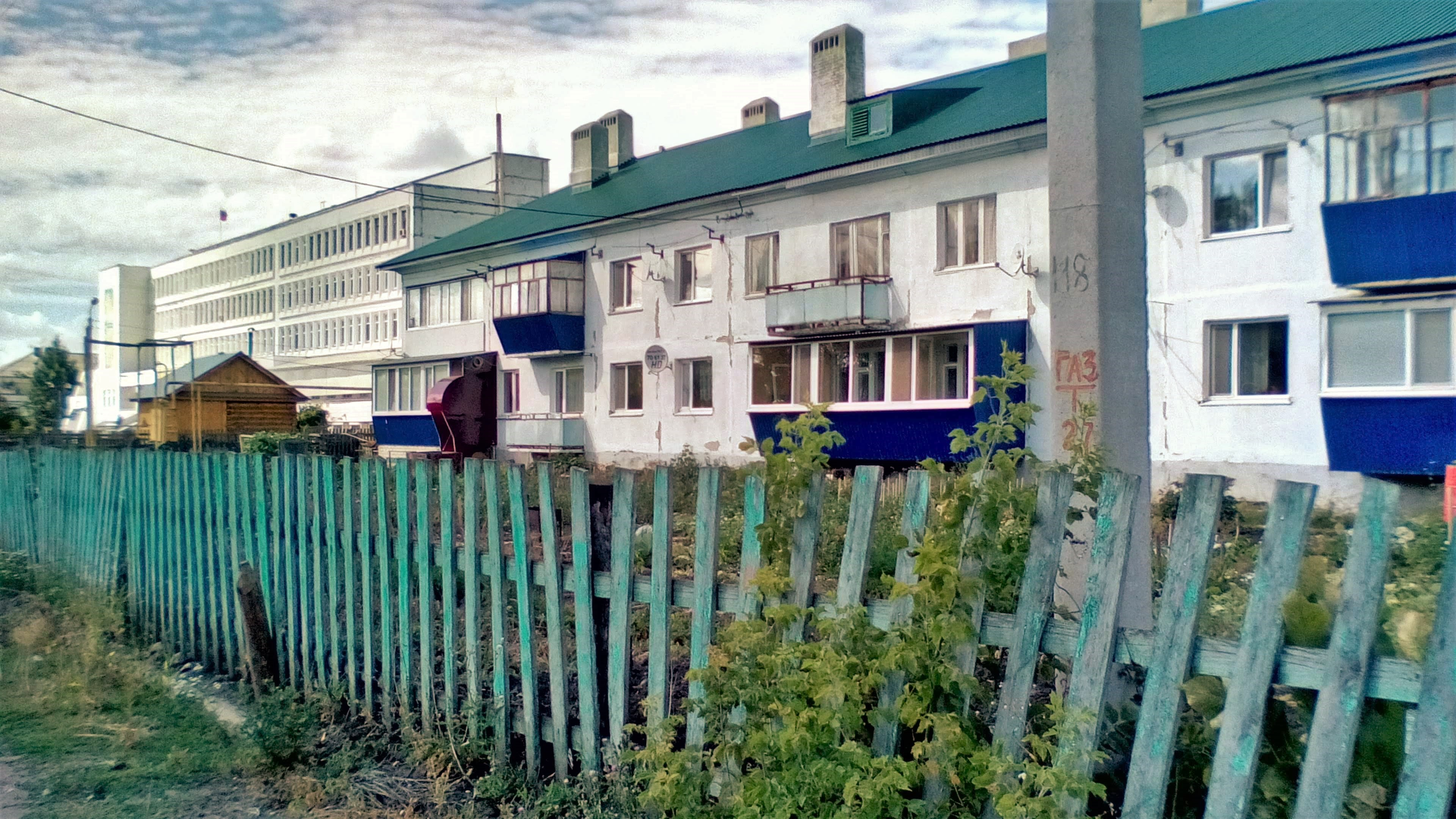 Timiryazevsky village, Ulyanovsk oblast, Russia. Apartment house and UNIISH research institute building.